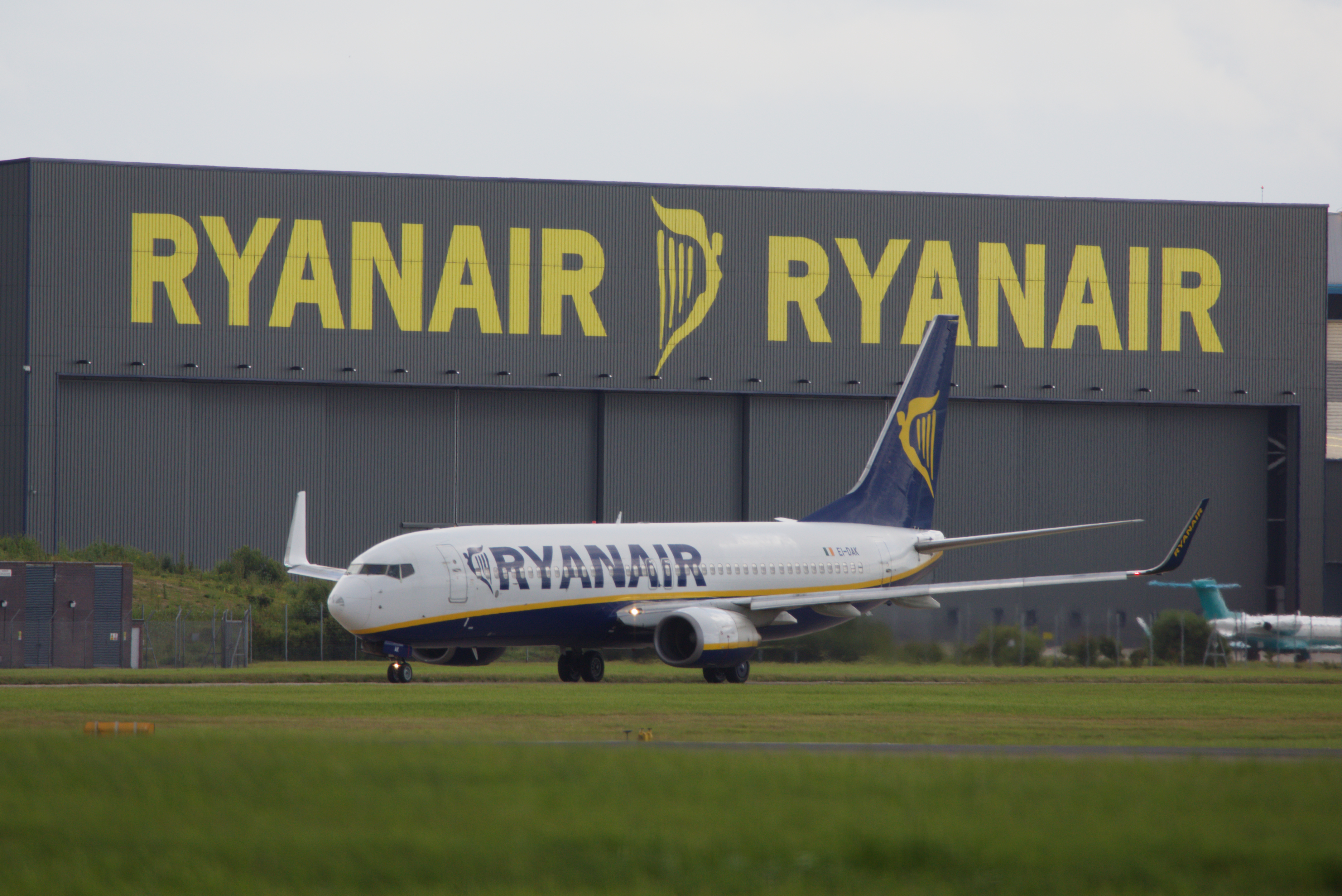 At Stansted